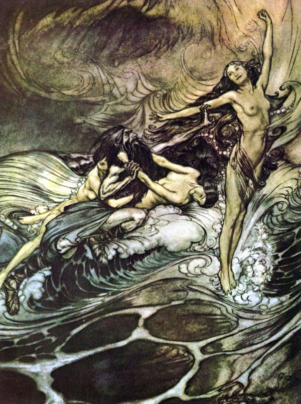 The Rhine-Maidens obtain possession of the ring and bear it off in triumph.